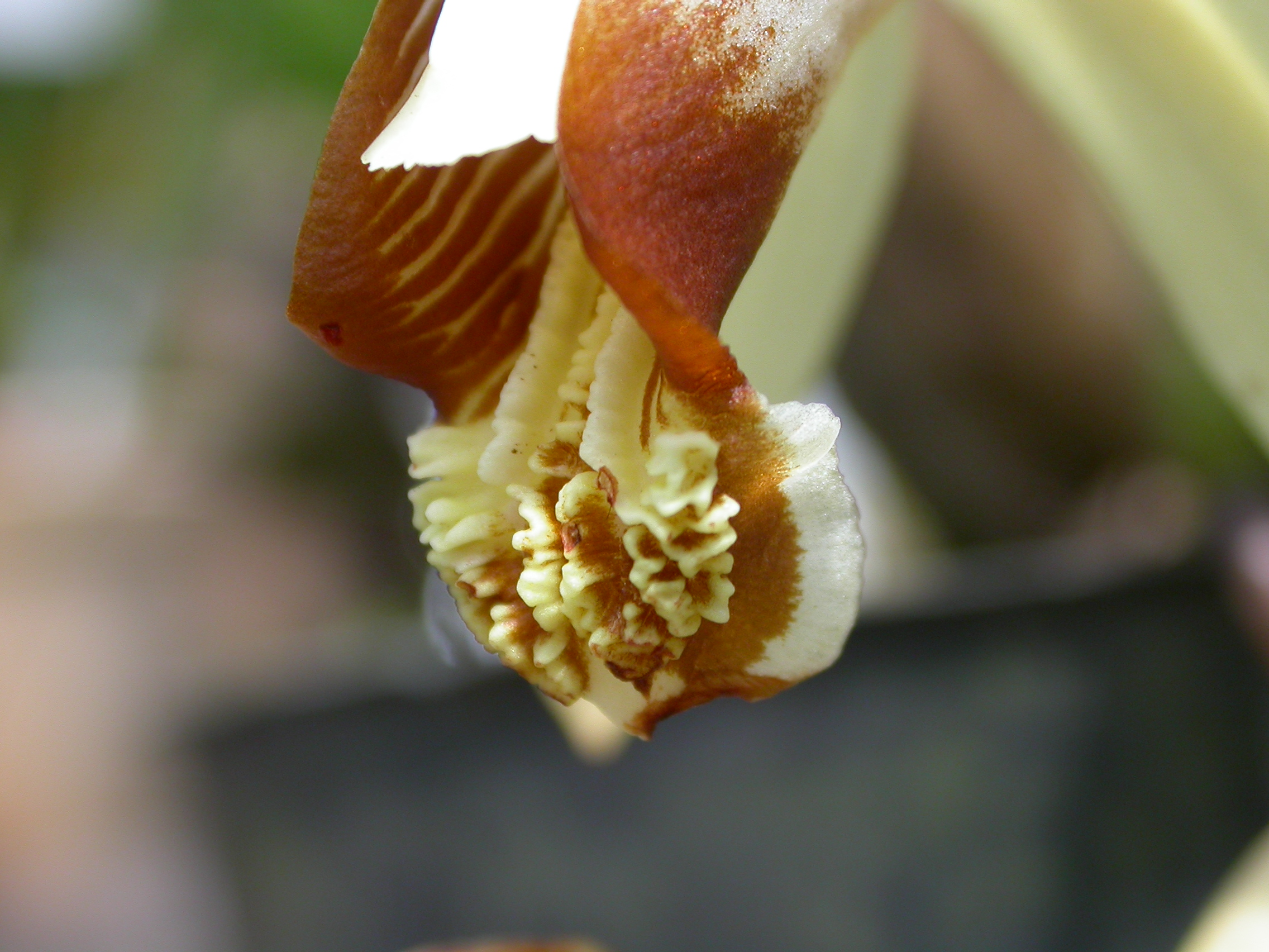 Coelogyne tomentosa lip